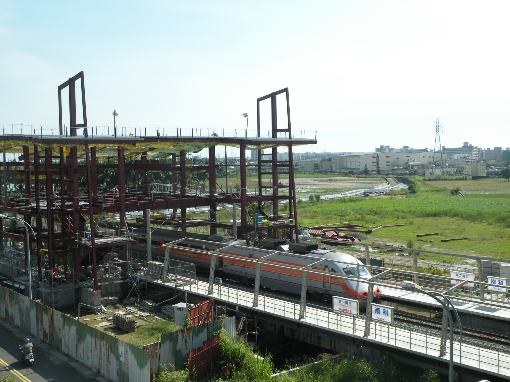 TRA Nanke Station under construction.